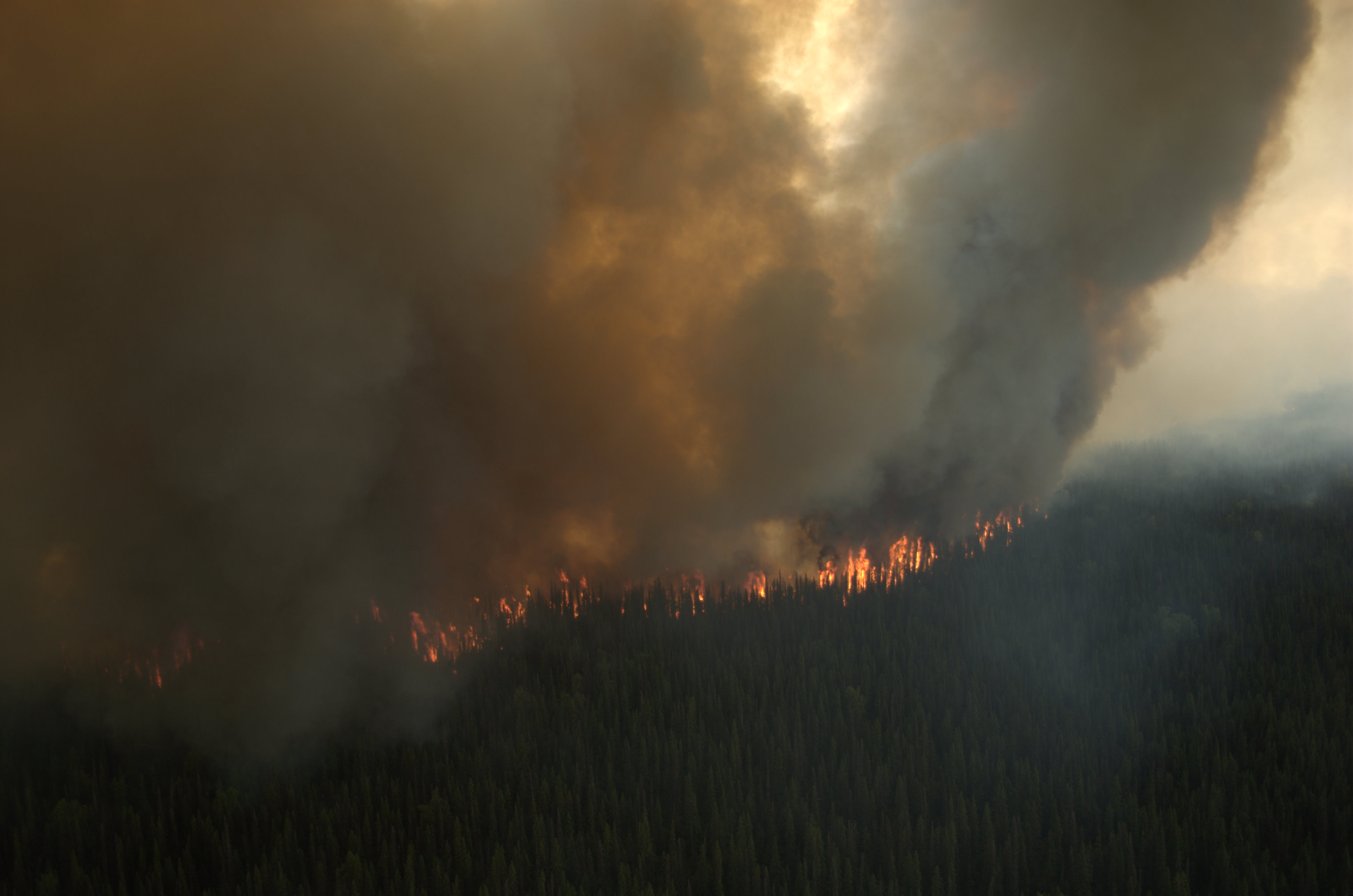 Aerial photo of Shanta Creek wildfire, Kenai National Wildlife Refuge, Alaska